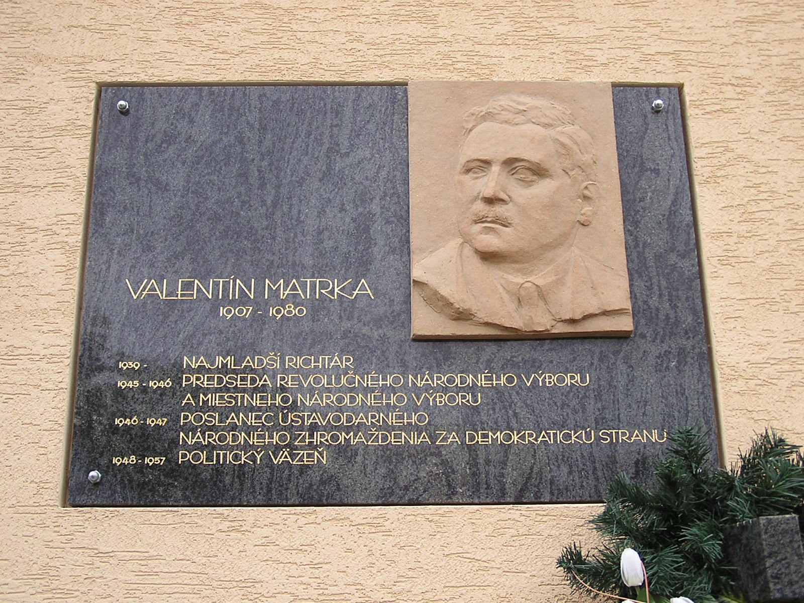 Memorial desk of Valentín Matrka in Lamač.